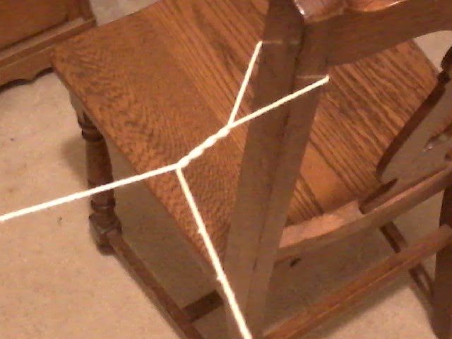 a section of string containing a number of twists which lead to a loop secured to the back of a chair